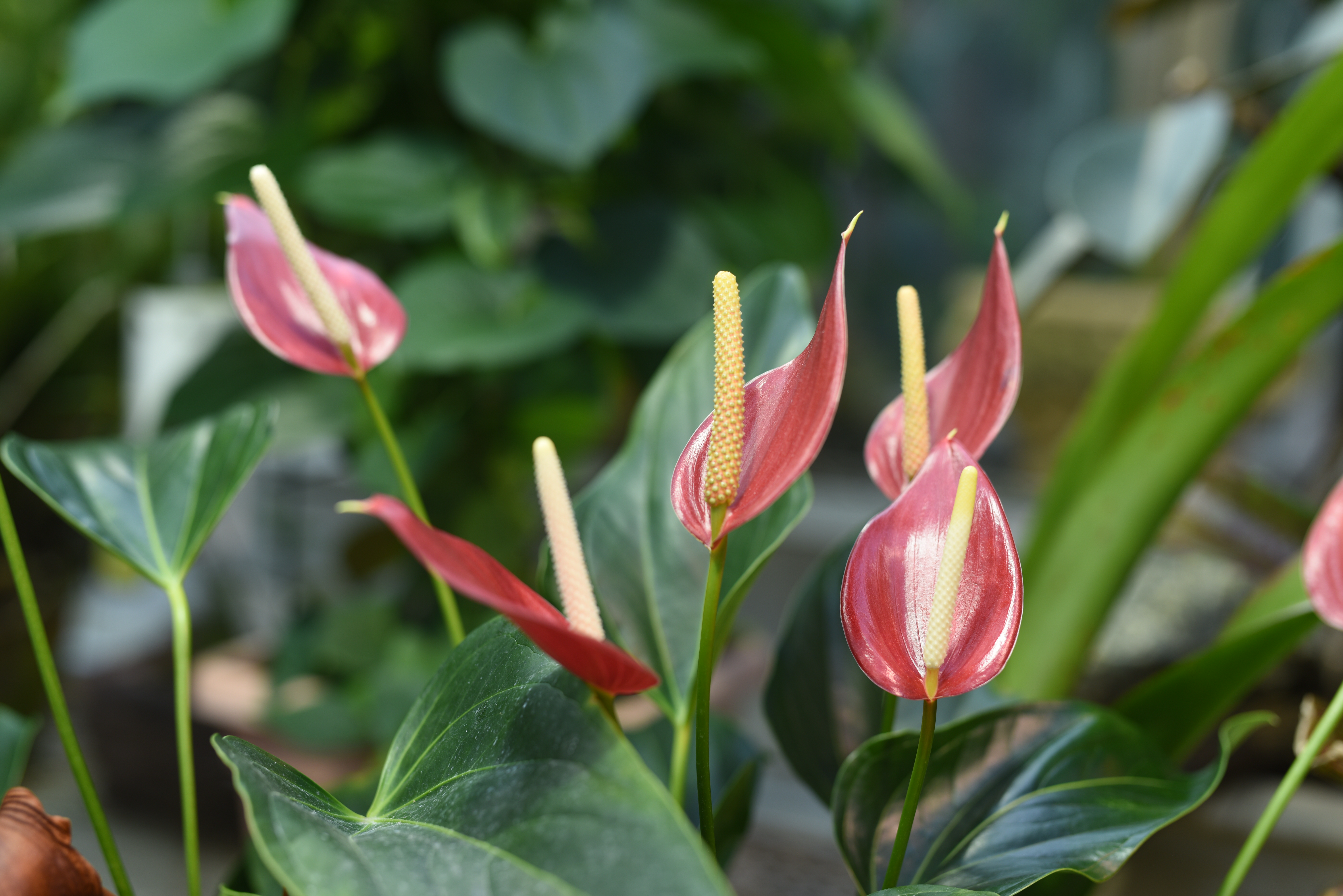 Flamingo Flower. Latin name, "Anthurium"